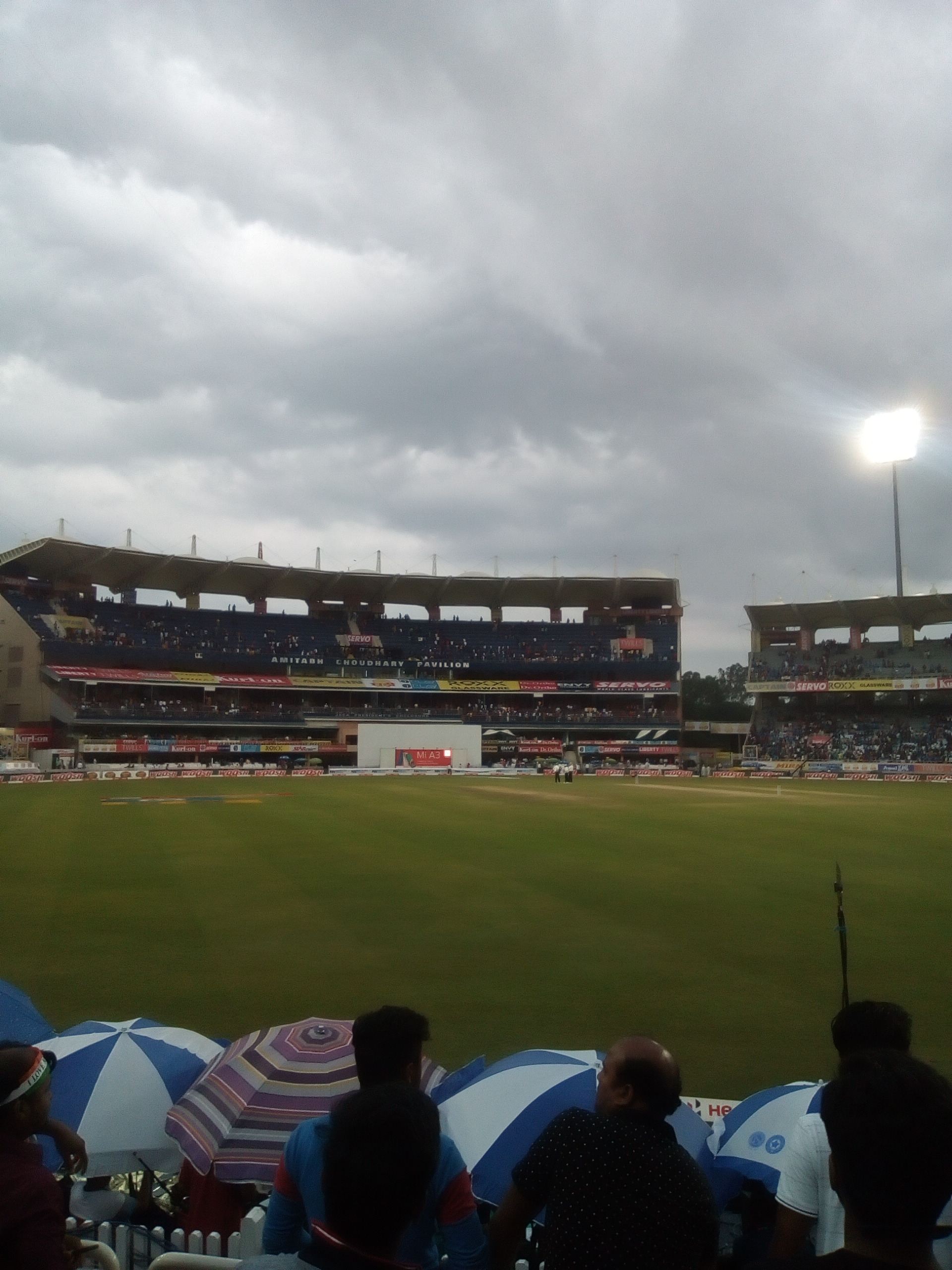 This is an image of JSCA Stadium in Ranchi